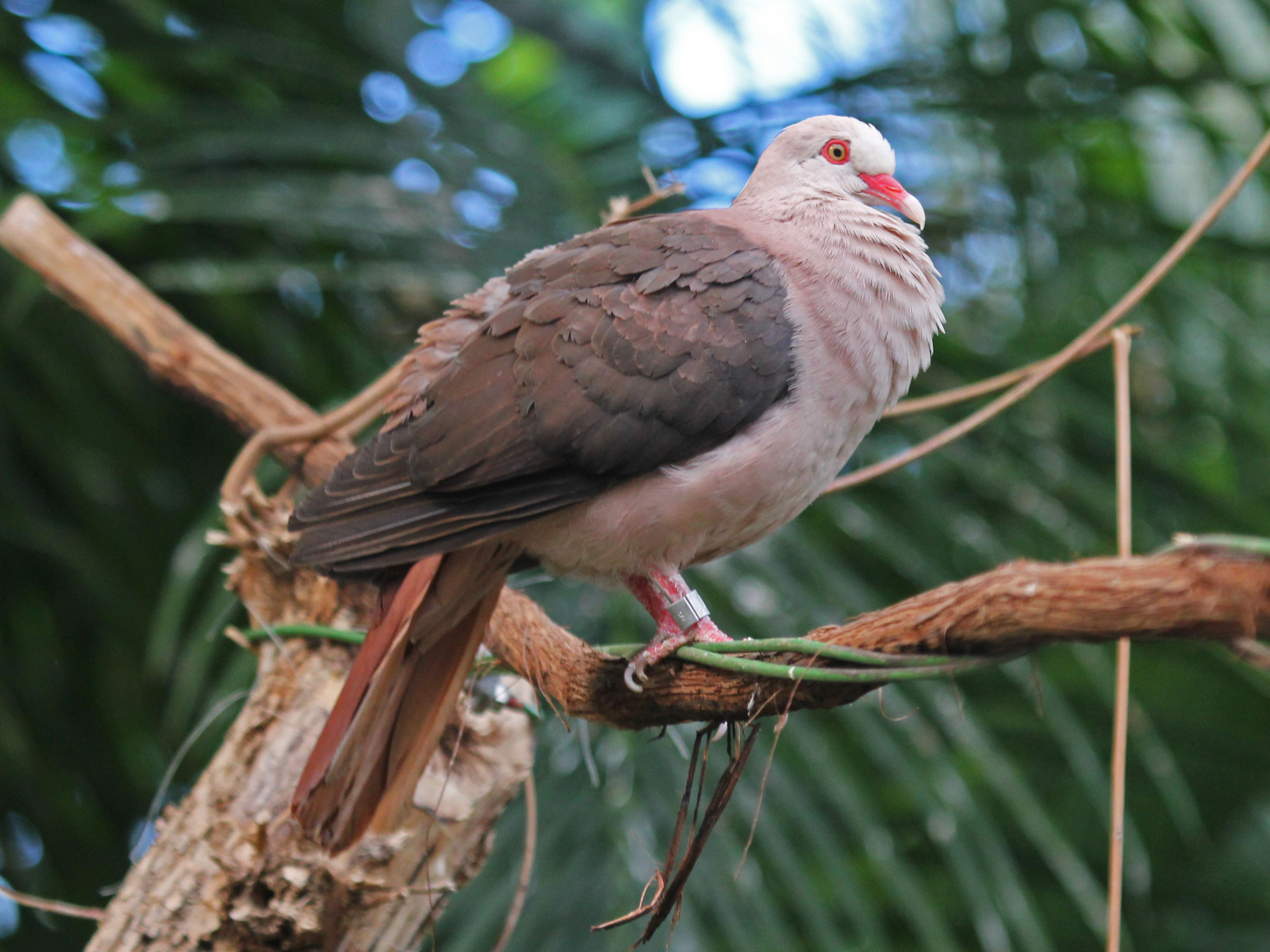 Pink Pigeon - San Diego Zoo. There is much debate about the classification of the Pink Pigeon. It is said to be Columba mayeri, Streptopelia mayeri, Nesoenas mayeri and more!